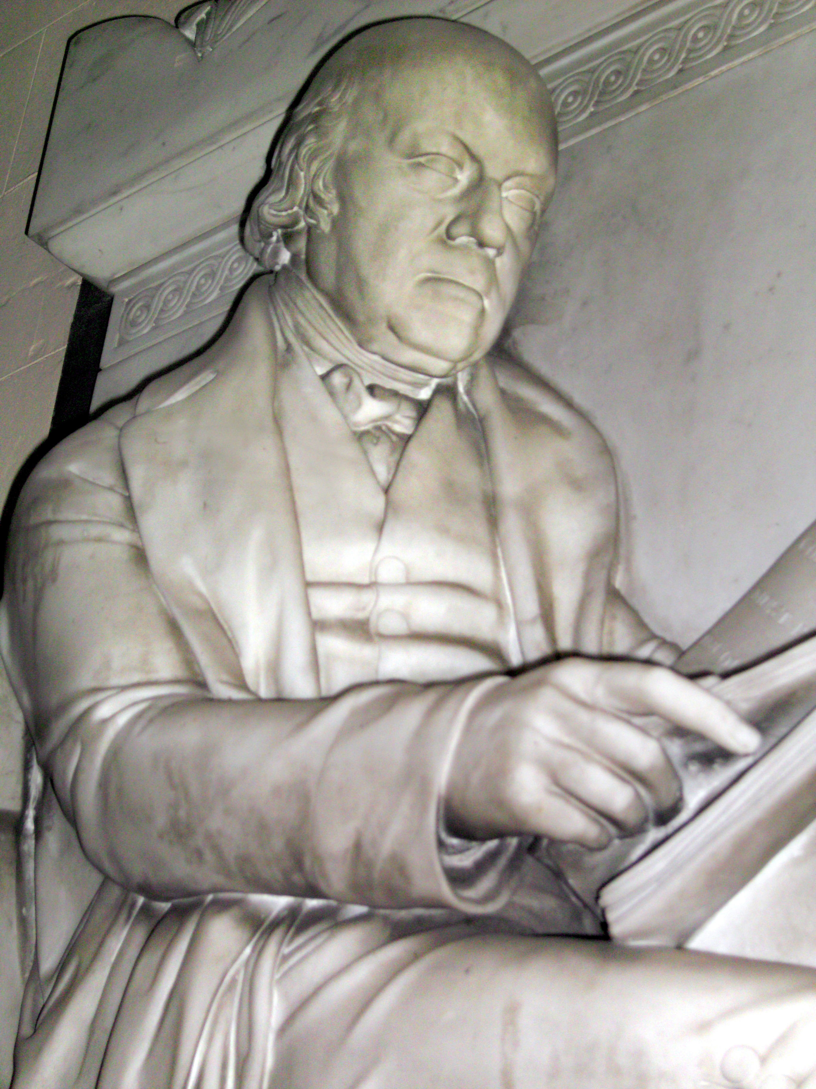 Monument to Isaac Hawkins Browne, essayist, Tory politician, MP for Bridgnorth 1784-1812. St. Giles church, Badger, Shropshire, England. By Francis Leggatt Chantrey.